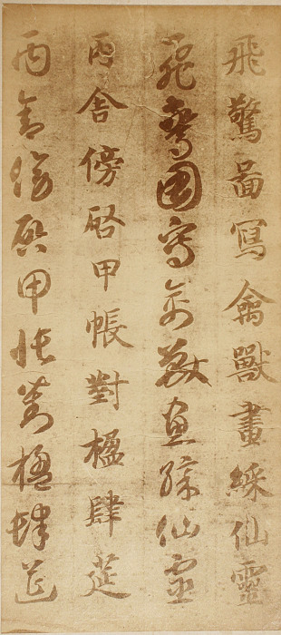 One page of the album "Thousand Character clasic in formal and Cursive script" attributed to Zhi Yong(7th century, China). National Tresure in Japan.24.5x11cm